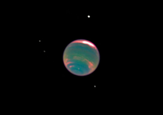 Combined color and near-infrared image of Neptune by the Hubble Space Telescope. It shows bands of methane in its atmosphere, and its four moons, Proteus (outer brightest), Larissa, Galatea, and Despina.